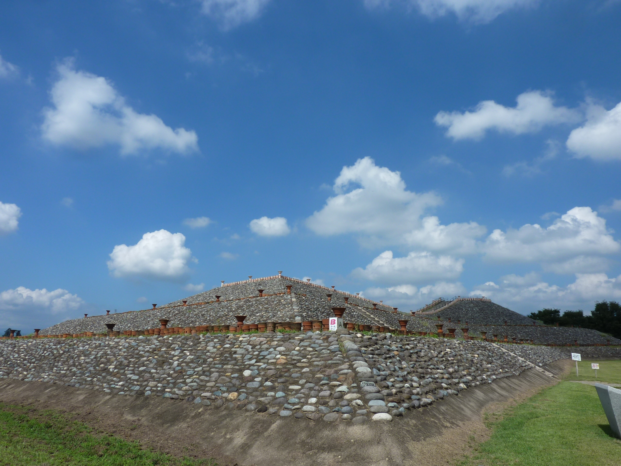 Hodoto Kofun Cluster